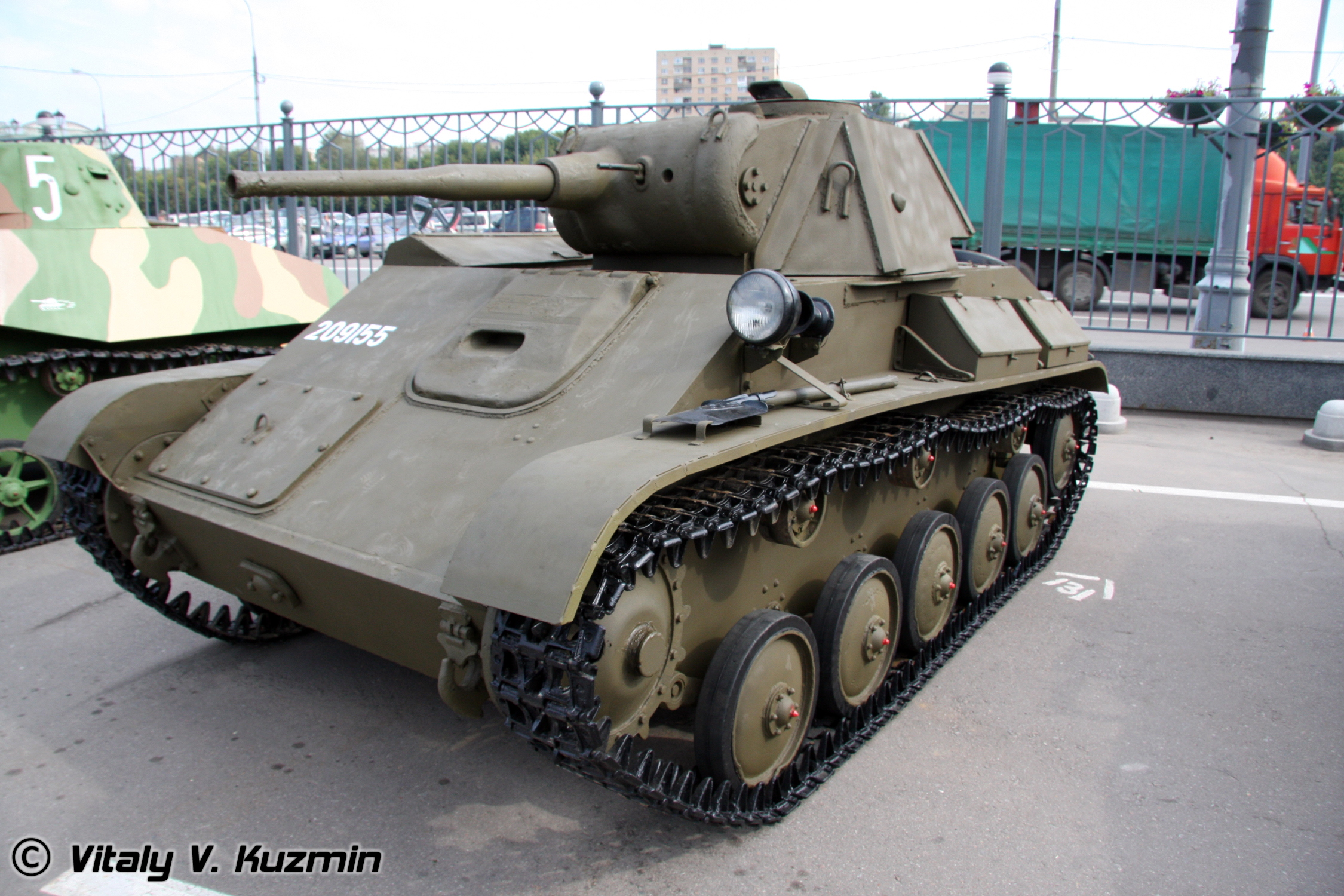 T-70 tank - IDELF-2008